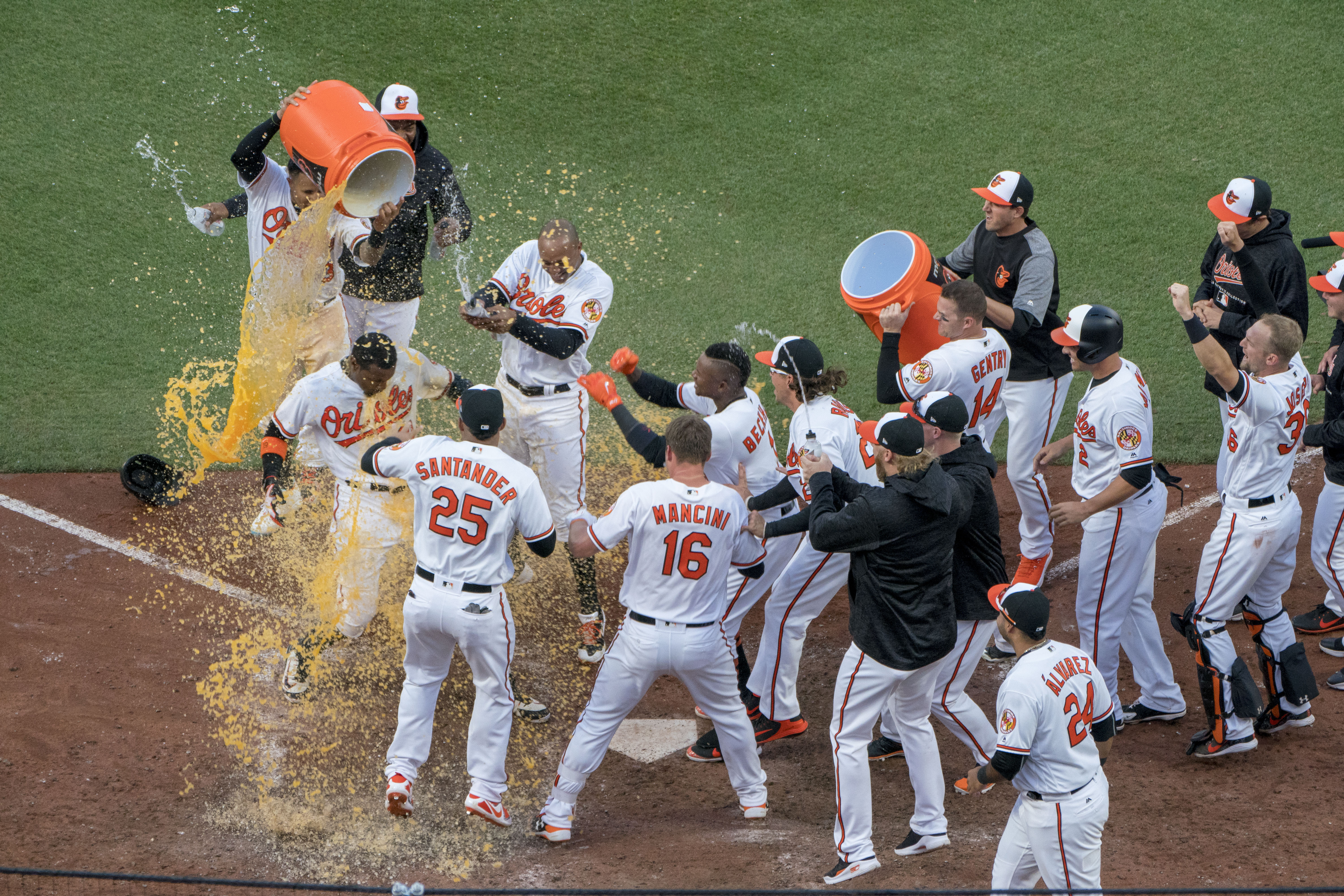 Adam Jones of the Baltimore Orioles celebrates with teammates after hitting a walk-off home run against the Minnesota Twins during the eleventh inning in the Opening Day game at Oriole Park at Camden Yards on March 29, 2018 in Baltimore, Maryland.